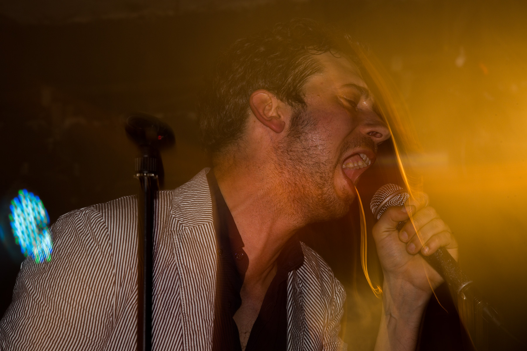 © 2018 Dario J Laganà